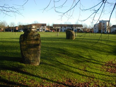 Depicted place: Balfarg